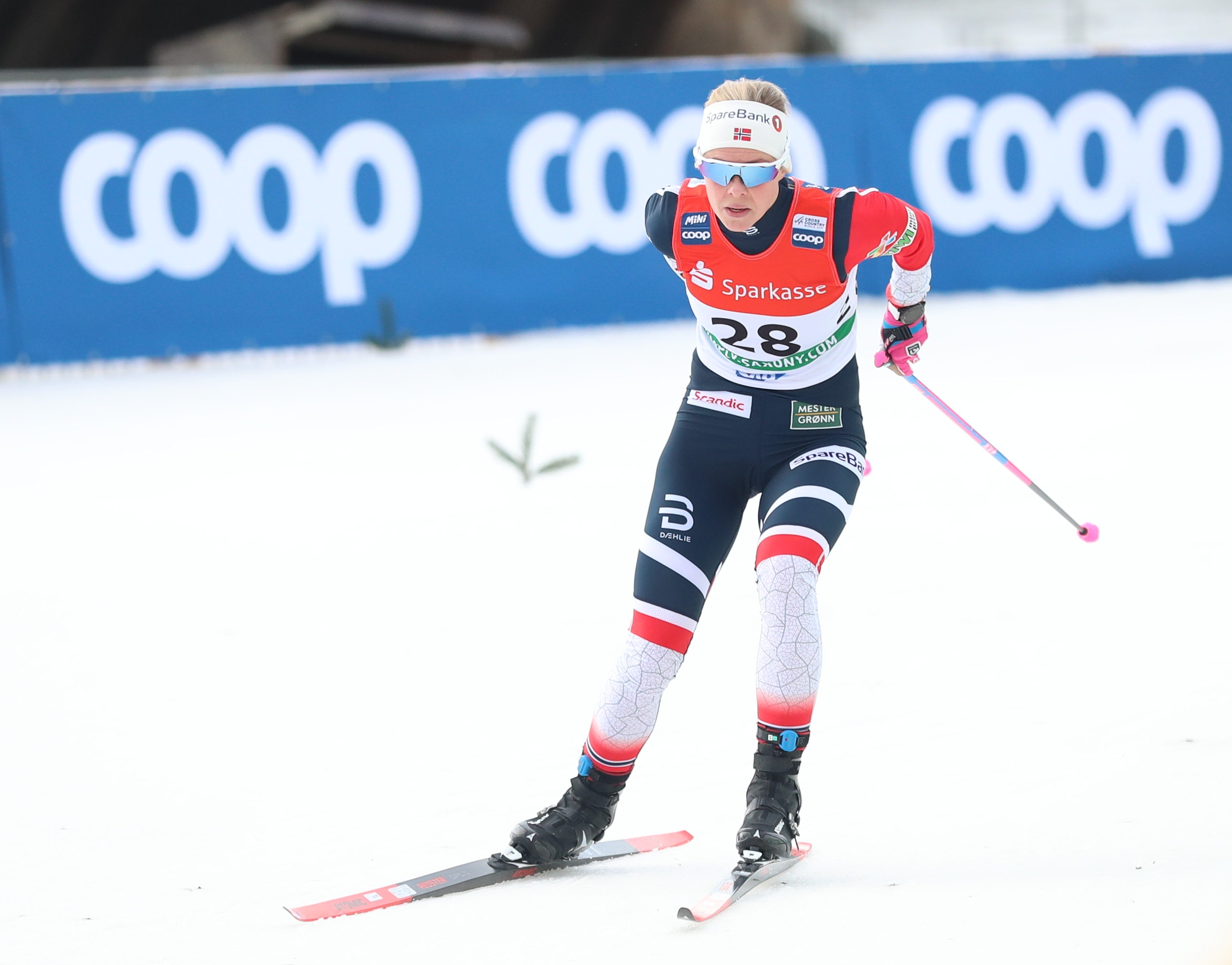 Women's Qualification at the FIS Cross-Country World Cup Dresden 2019 (1.6 km Free Sprint)